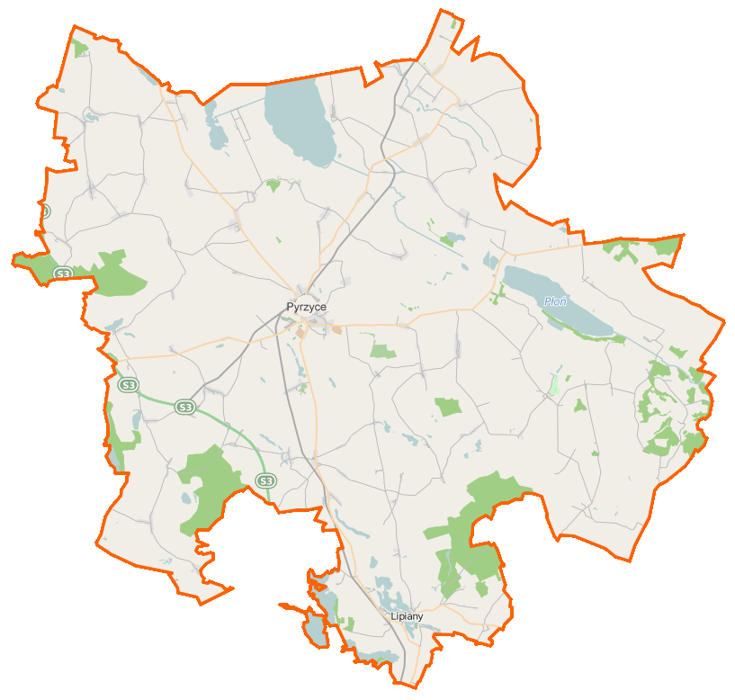 Map of Powiat pyrzycki, Poland This map of Powiat pyrzycki was created from OpenStreetMap project data, collected by the community. This map may be incomplete, and may contain errors. Don't rely solely on it for navigation.